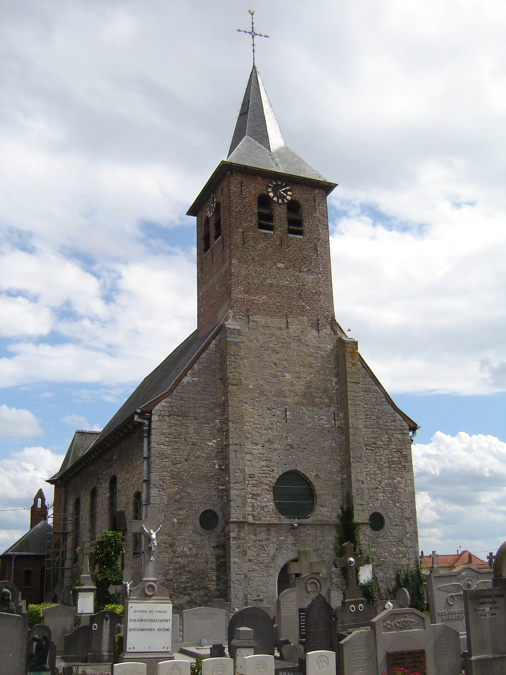 Church of Saint John Baptist in Helkijn, Spiere-Helkijn, West Flanders, Belgium